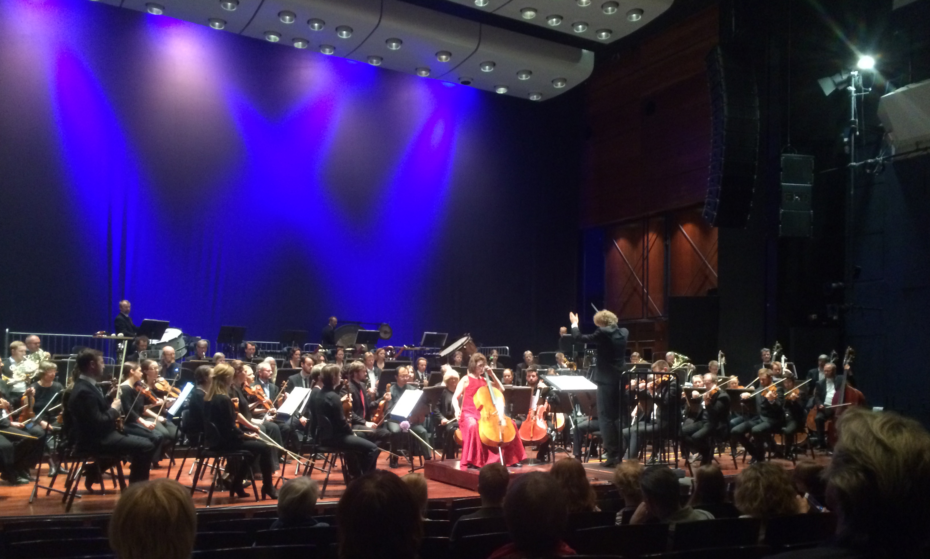 The Norwegian cellist Marianne Baudouin Lie at a concert with the Trondheim Symphony Orchestra in 2016